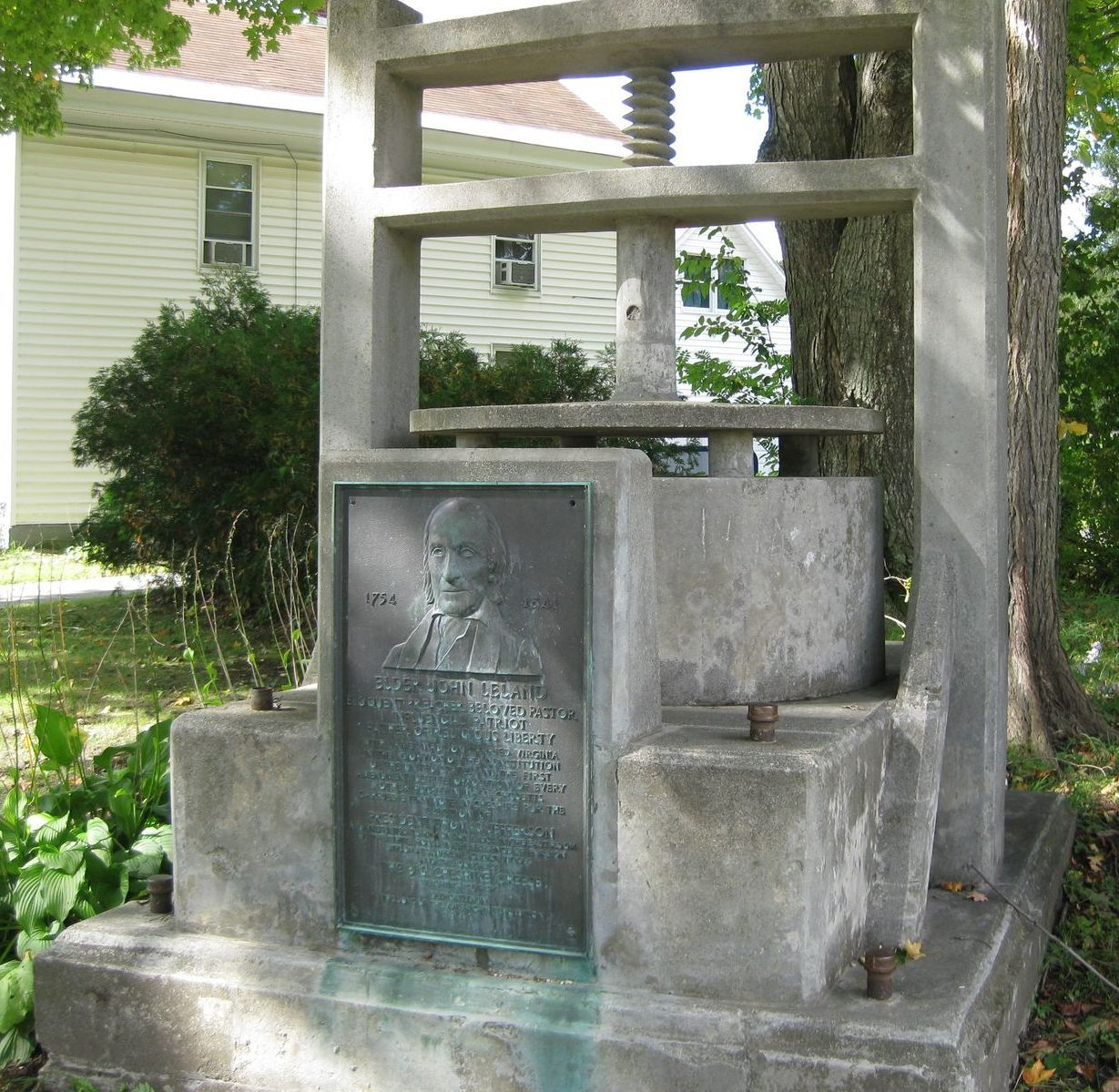 Photograph of the Cheshire Mammoth Cheese monument in Cheshire, MA, USA.